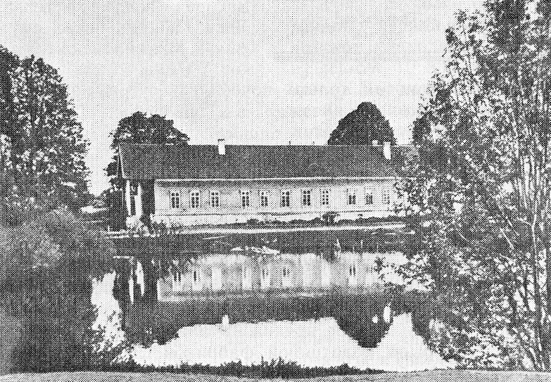 The Pskov area. With. Trigorsky. The house Osipov-Woolf. A photo the end of XIX century